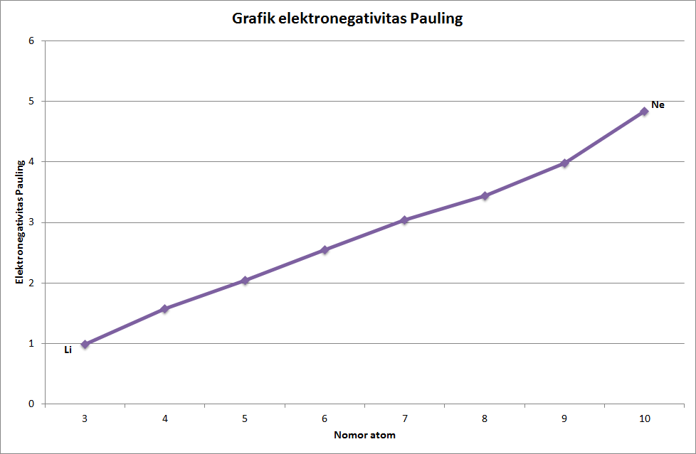 Graphical trend of period 2 elements for electronegativity